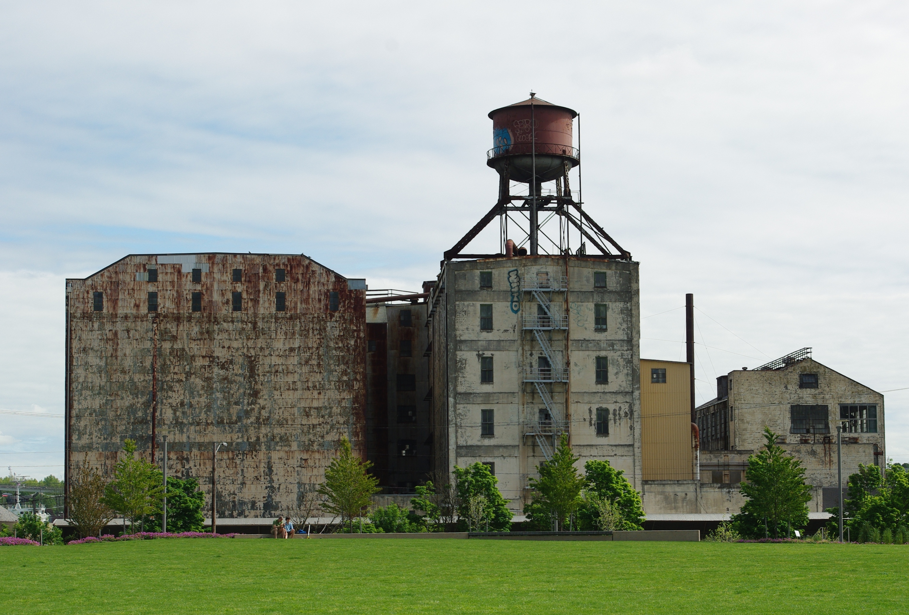 Aging industrial building (Centennial Mills) in Northwest Portland squeezed between The Fields Park and the Willamette River along Naito Parkway. Demolished in 2016.